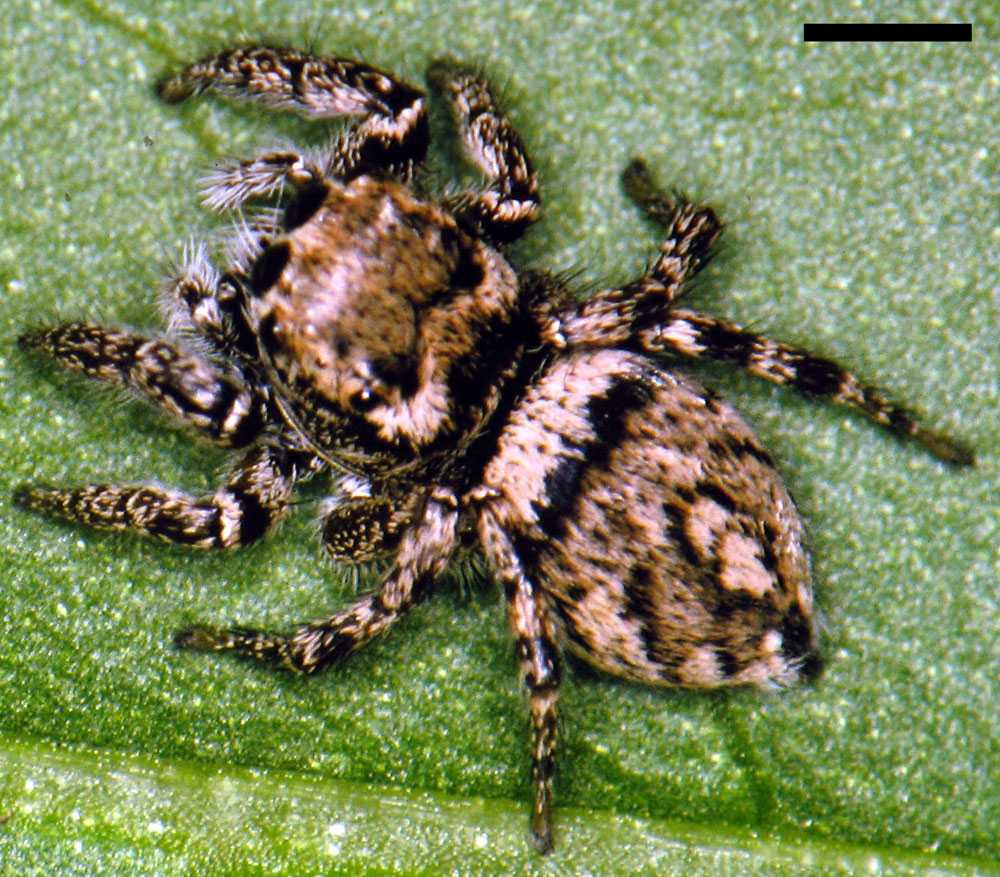 Female Habronattus carolinensis jumping spider from Florida, USA